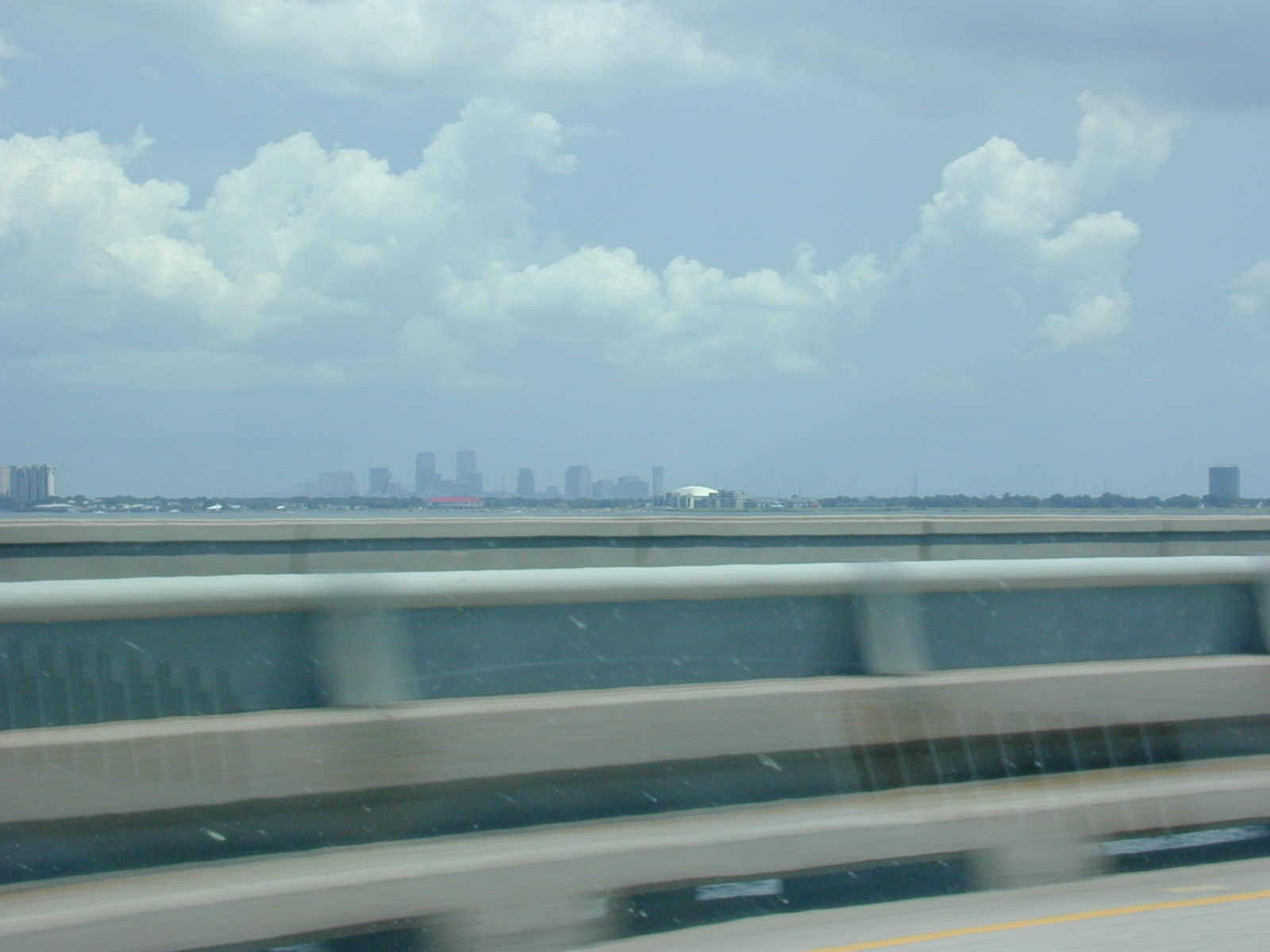 New Orleans Skyline as seen from Lake Pontchartrain Causeway.